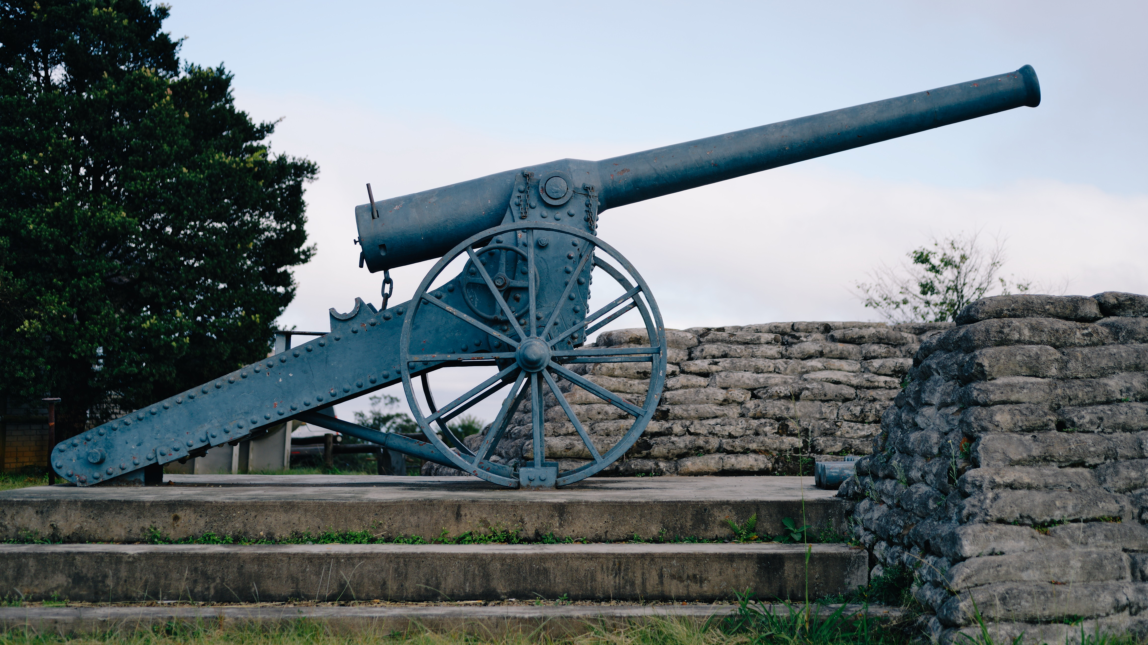 A 155 mm Creusot Long Tom Cannon replica located approximately 20km outside of Sabie in the Long Tom Pass, Mpumalanga, South Africa. Made in 1985 to commemorate the use of these cannon during the Second Boer War.